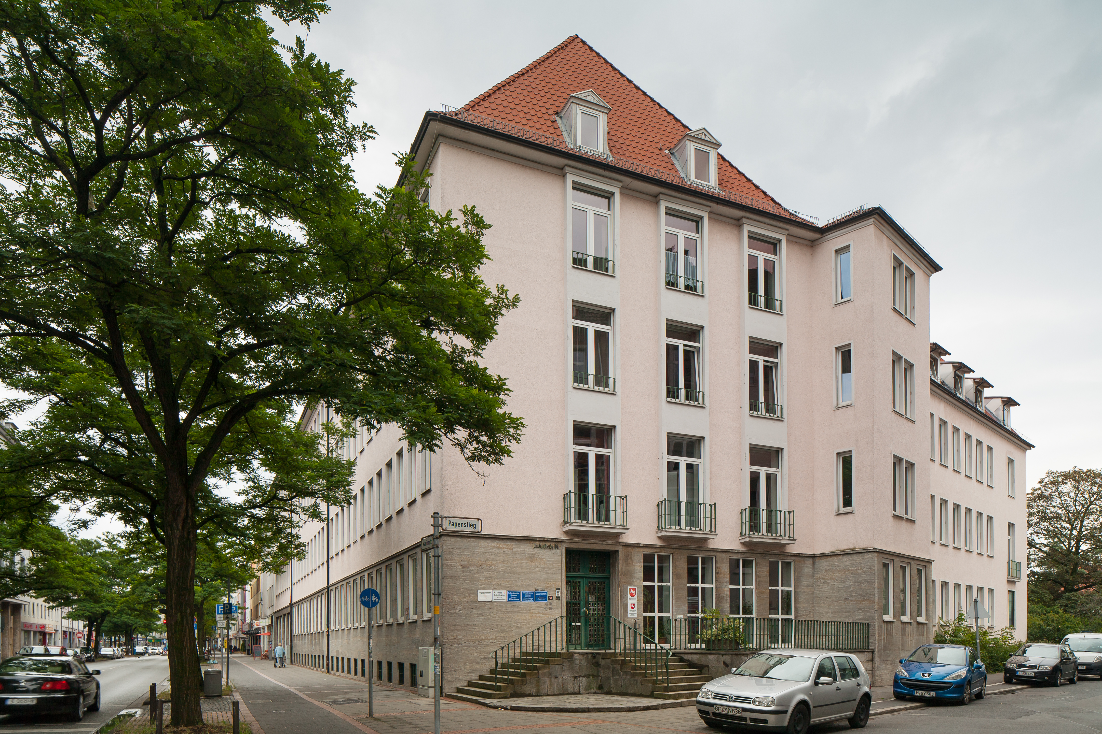 Former administration building of the electric company "Hannover-Braunschweigische Stromversorgungs A.G.". The building was erected in 1937 and is a typical example for Nazi architecture.